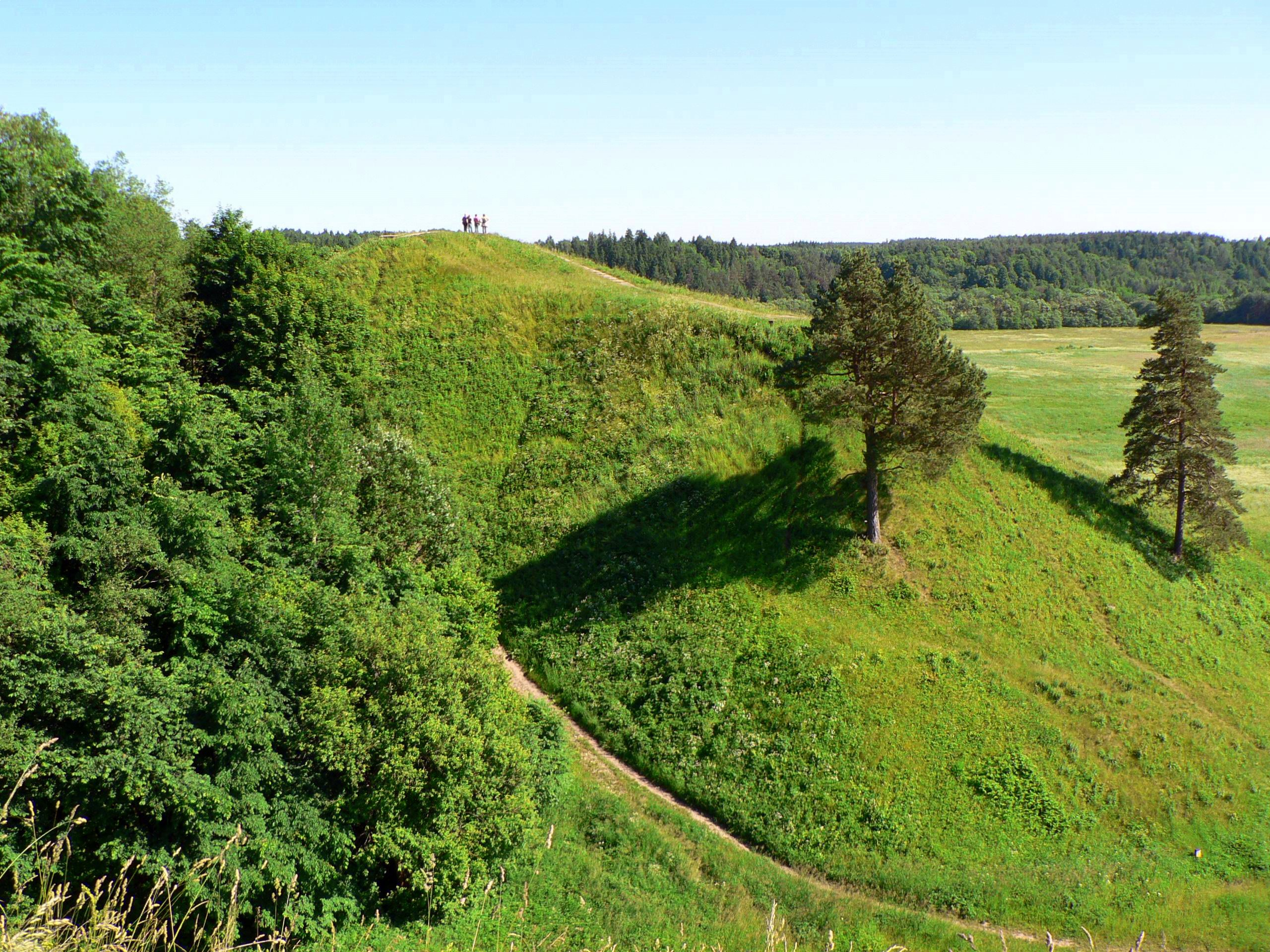 Old hillfort mounds near Kernave, Lithuania. Author: Wojsyl, 2005